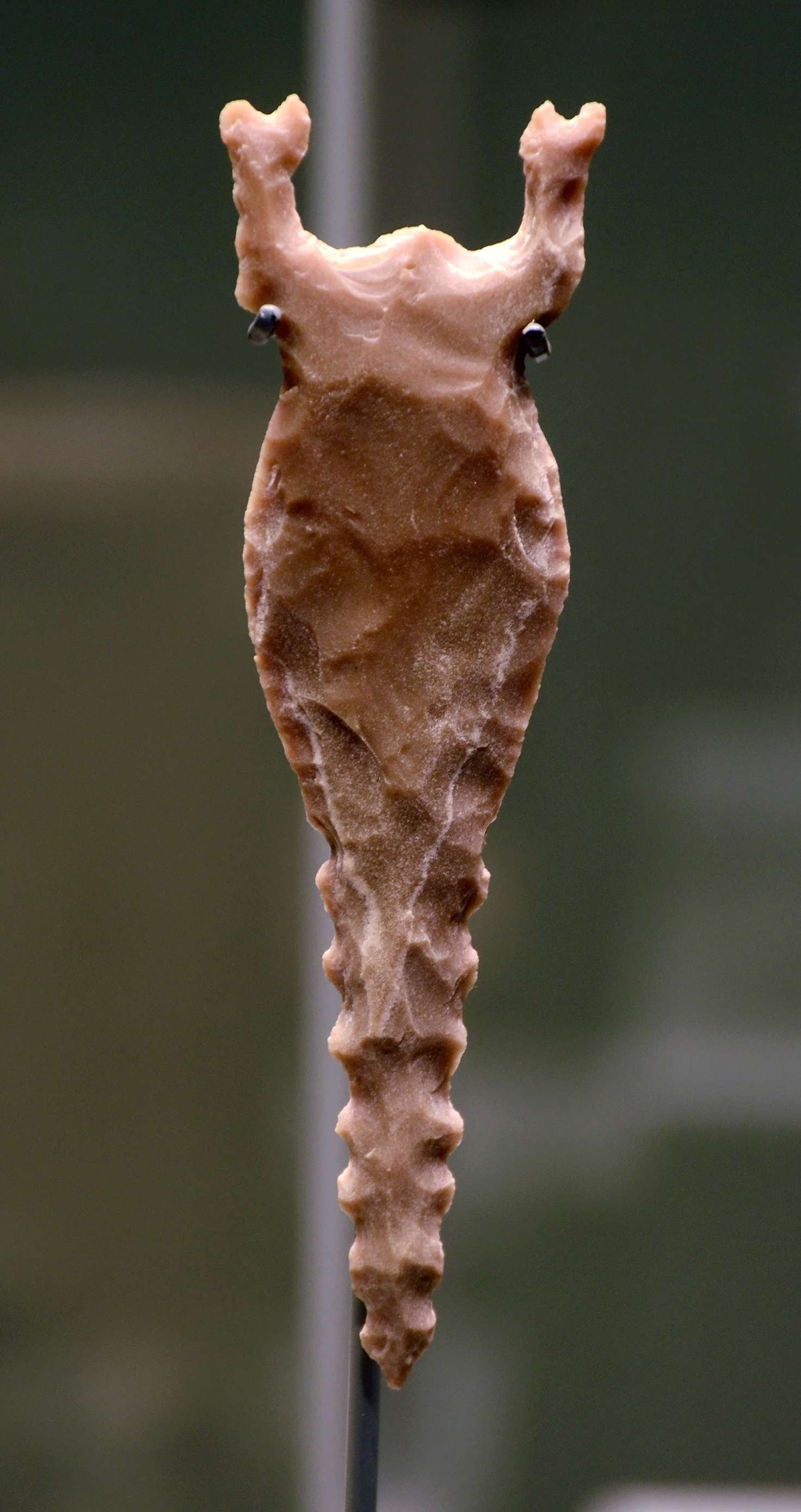 Scorpion, flint, from Egypt, predynastic period ( 3650-3050 BC ). Musée de Mariemont.